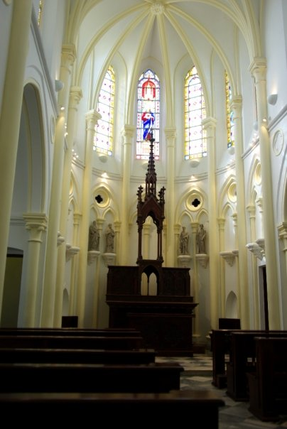 伯大尼修院